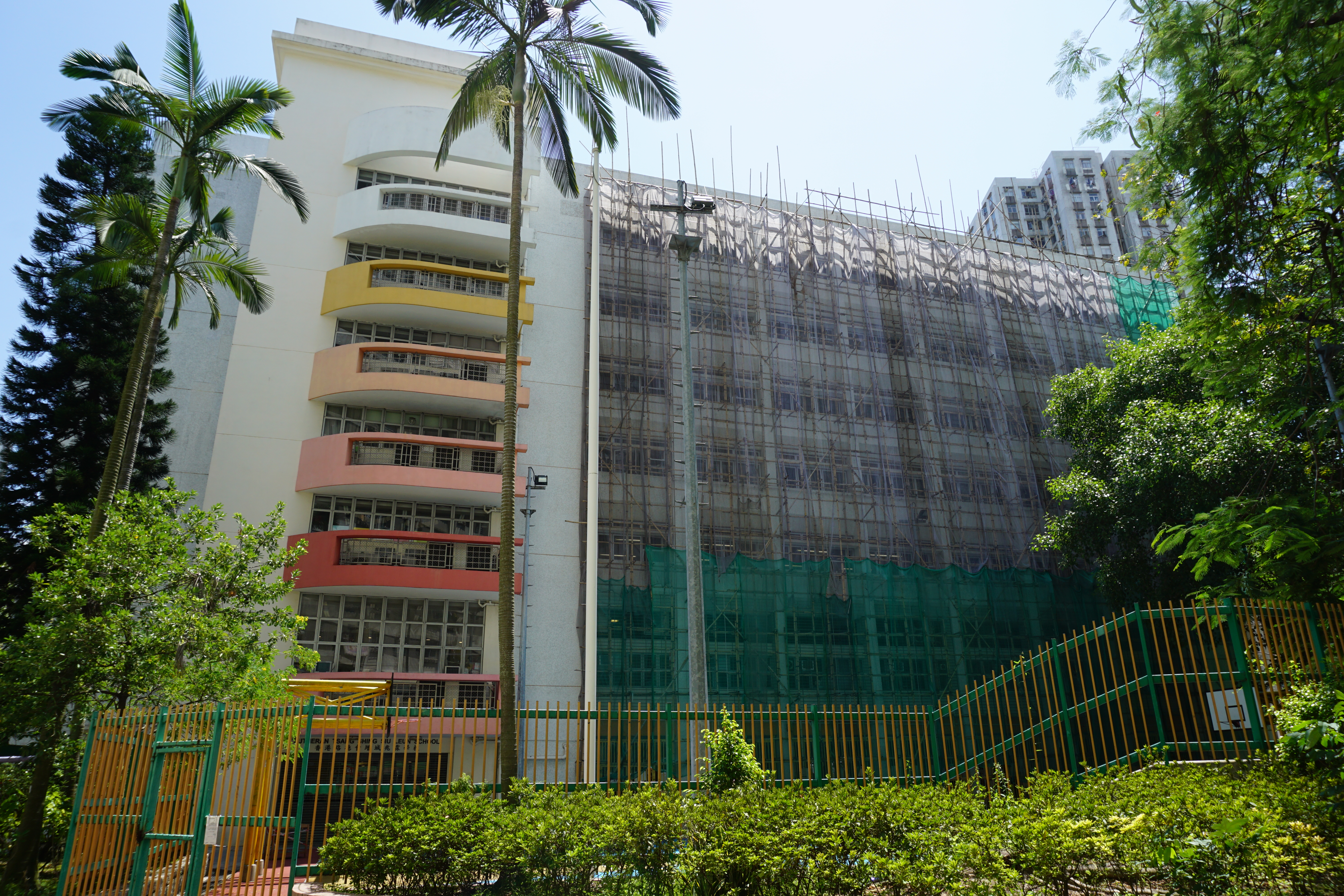 Lutheran Tsang Shing Siu Leun School in Tuen Mun, Hong Kong.